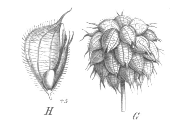 Illustration from book